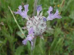 Salvia carduacea. BLM photo, no copyright.